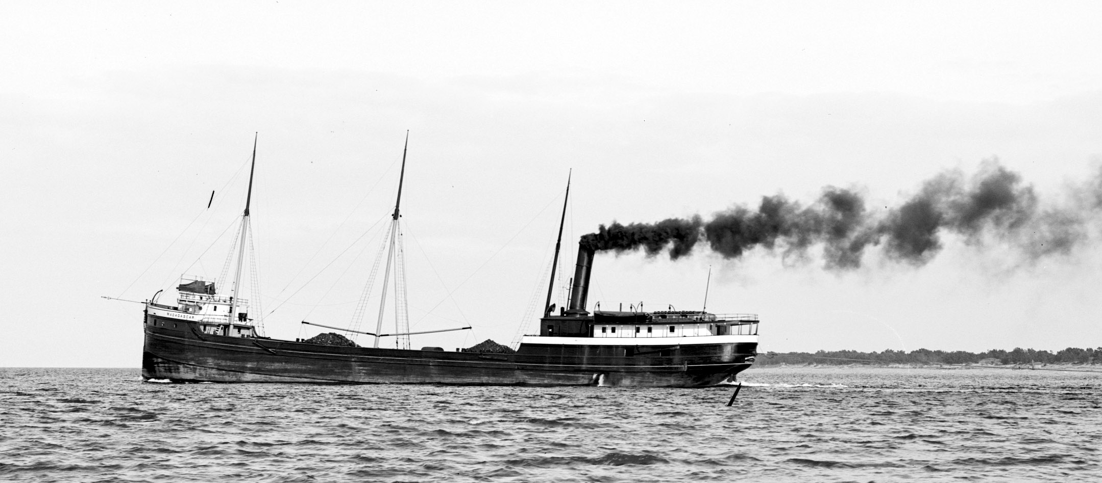 Steamship Madagascar